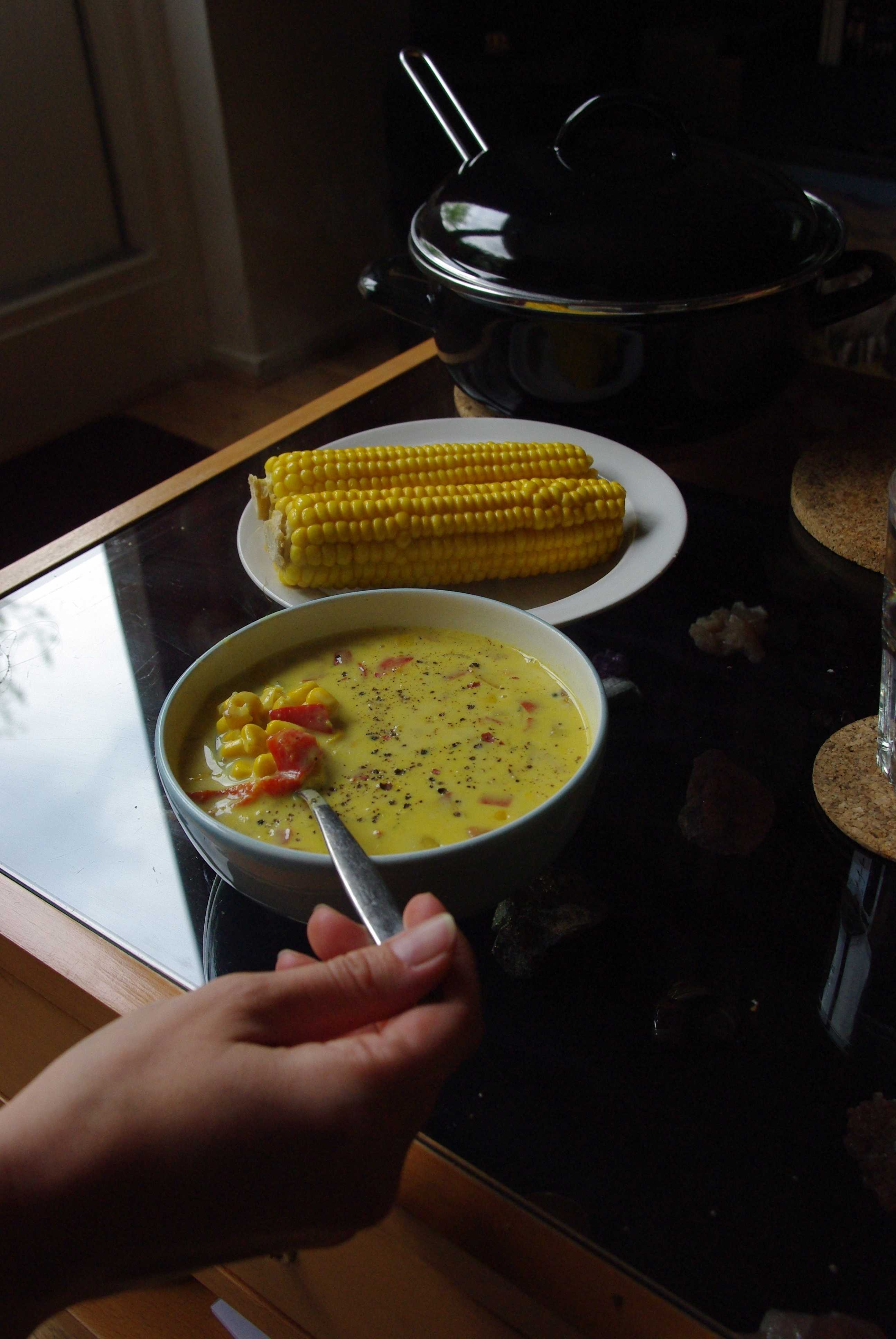 Corn soup in a bowl. In the background: a plate with two cobs of corn and the pan in which I made the soup.